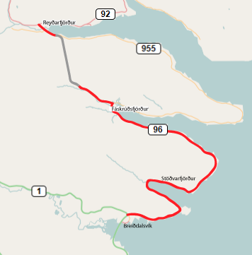 Road 96 in Iceland marked in red, with tunnels marked in grey. This map may be incomplete, and may contain errors.